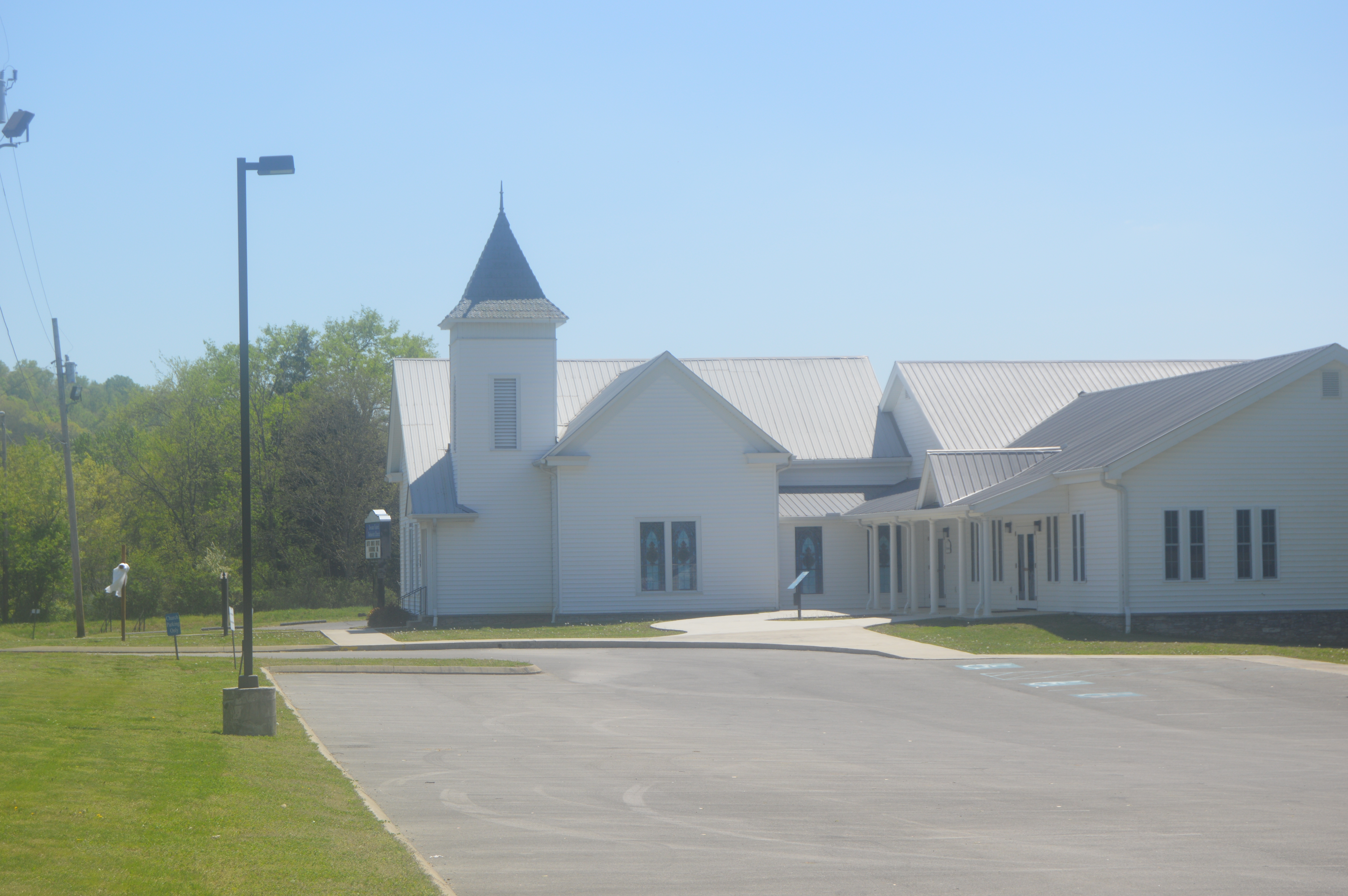 View from the north of the Decatur Methodist Church, located at the southern end of Vernon Street in Decatur, Tennessee, United States. Built in 1859, it is listed on the National Register of Historic Places.